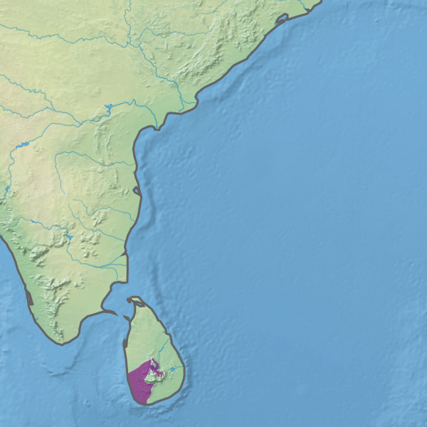 Ecoregion IM0154 - Sri Lanka lowland rain forests (in purple)